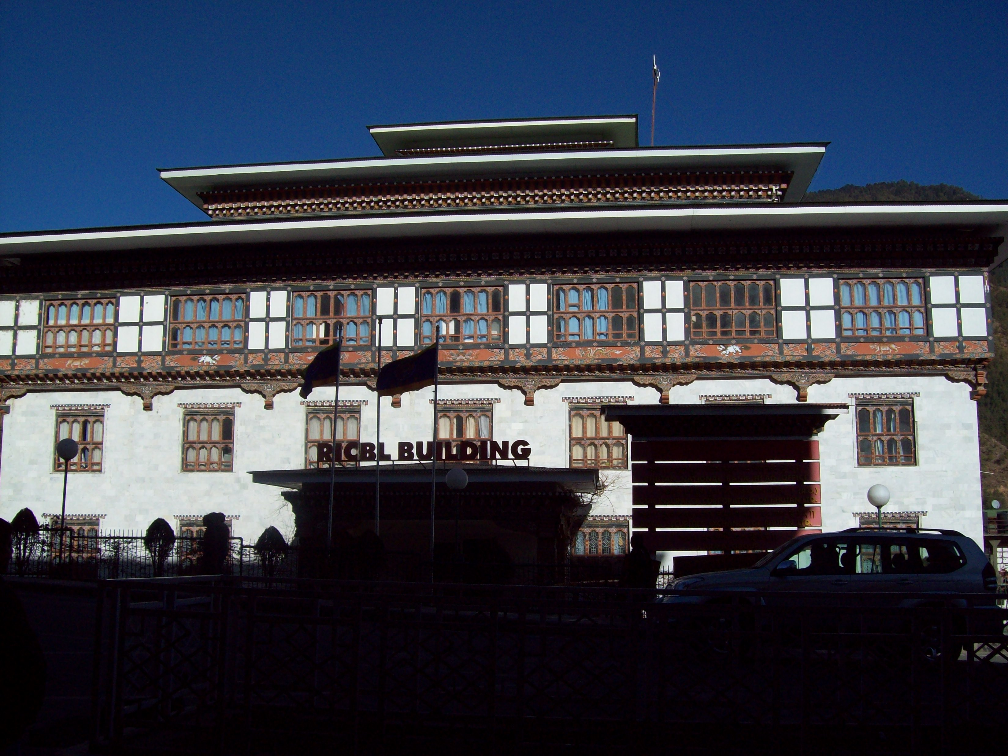 Royal Insurance Corporation of Bhutan Limited, Thimphu